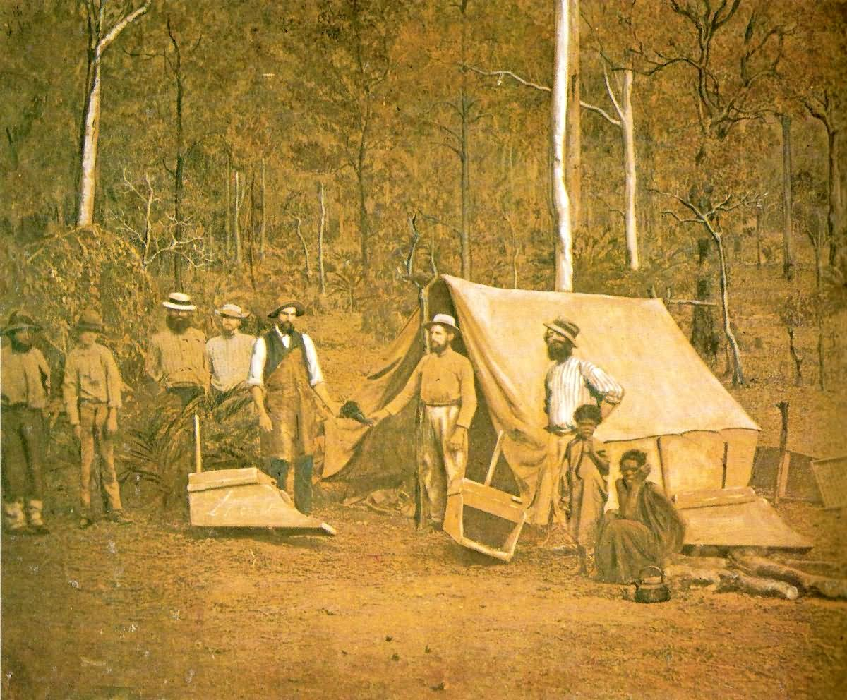 Settlement of prospectors during the gold rushes in Australia